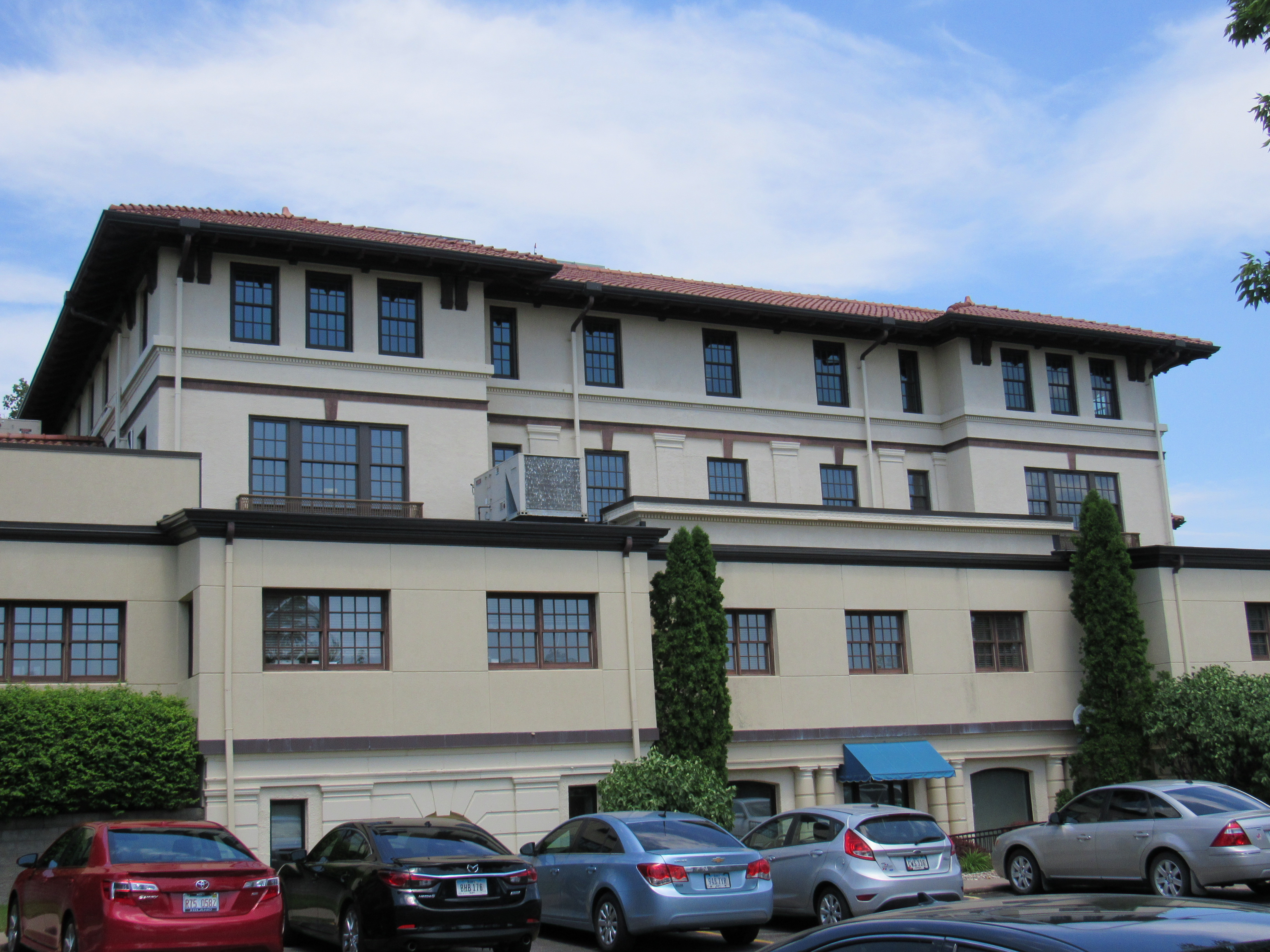 Villa Velie, the former home of Willard Lamb Velie, in Moline, Illinois. It is now an office building.